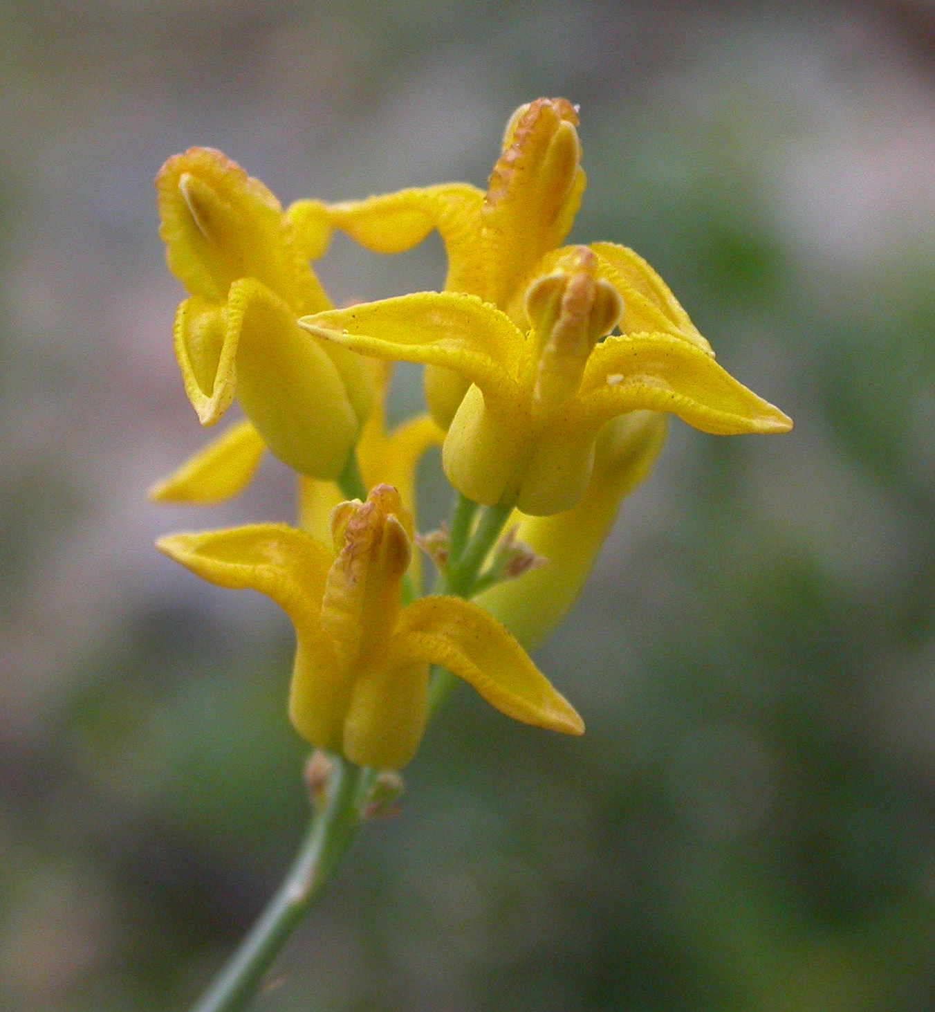 Ehrendorferia chrysantha (syn. Dicentra chrysantha) — Golden Eardrops. In the San Gabriel Mountains, north of Rancho Cucamonga, California.